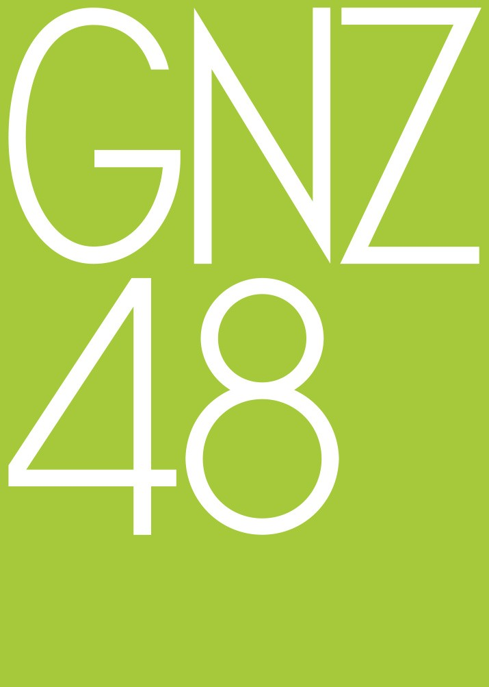 GNZ48 Logo